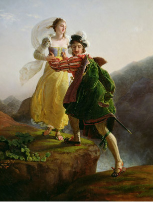 Bianca Cappello Fleeing with Her Lover